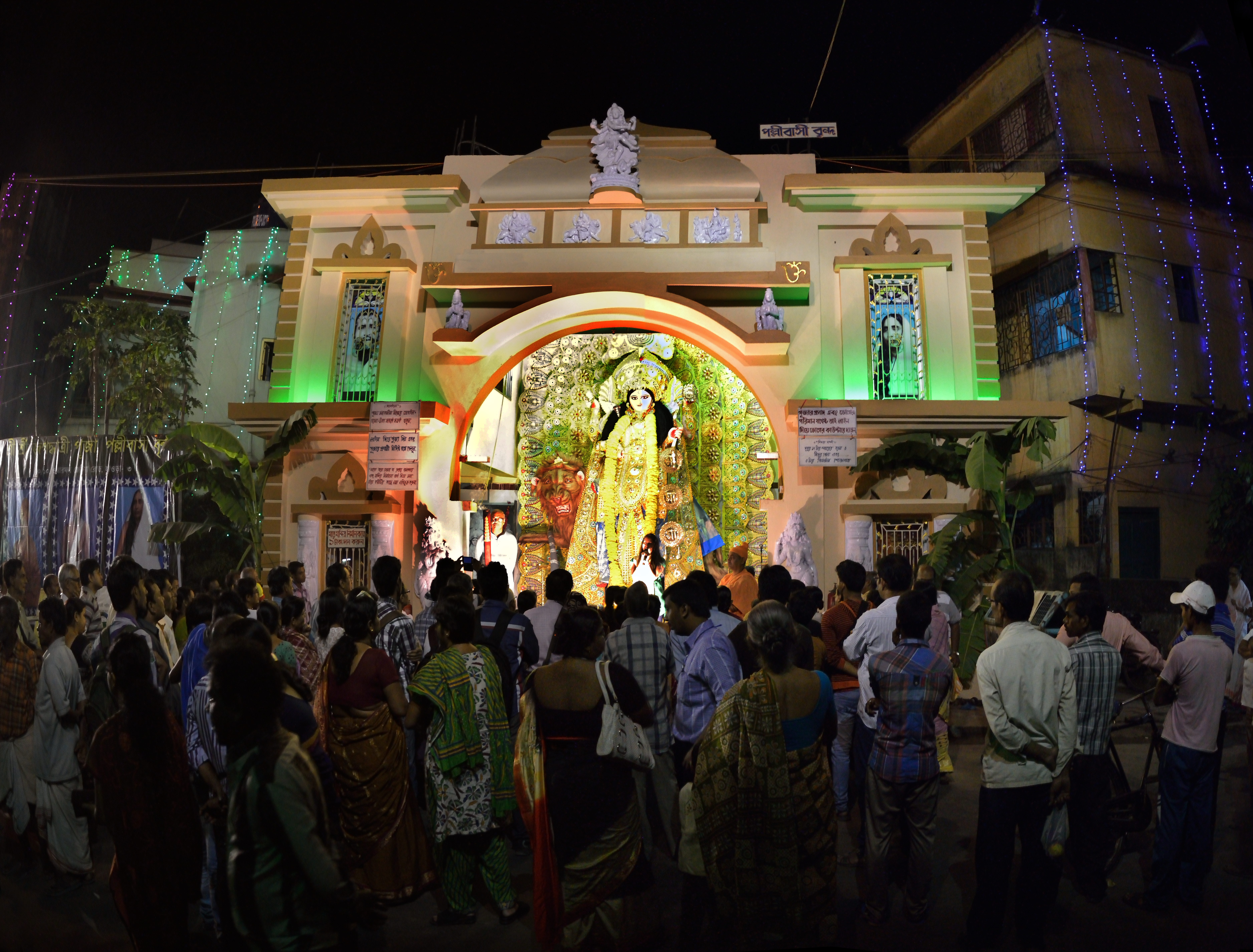 In Hinduism, Jagaddhatri or Jagadhatri (the Protector of the World) is a form of Devi, the supreme goddess. This puja has been organized by the Pallybasibrinda, 20/10 Onkarmal Jetia Road, Bataitala, Howrah.